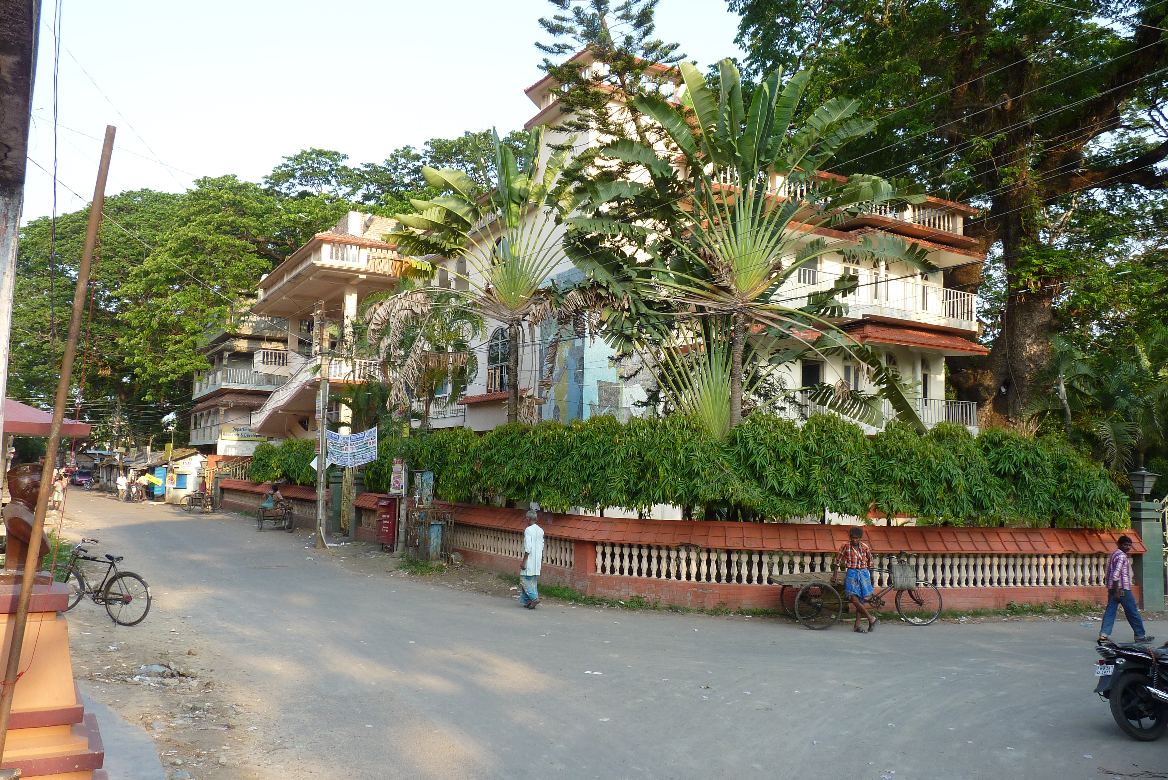 Private cancer and general hospital at Barasat.